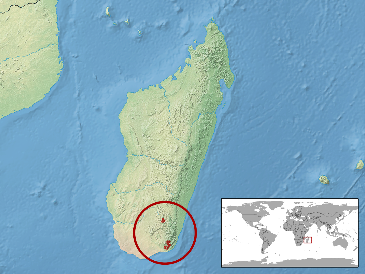 geographic distribution of Calumma tsycorne (Native: Madagascar)